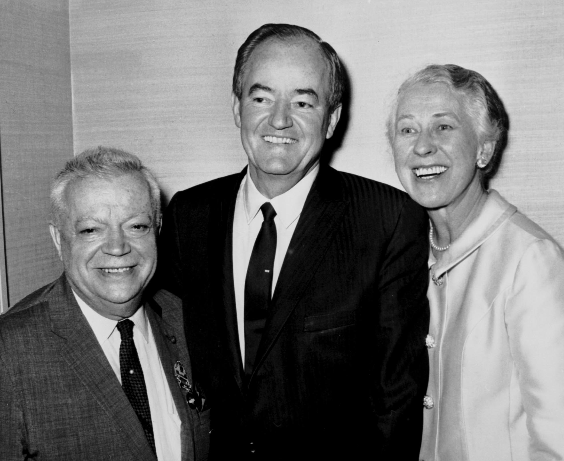 Title: David Dubinsky, Hubert H. Humphrey, and Muriel Buck Humphrey, January 1, 1966 Date: 1966 Photographer: Unknown Photo ID: 5780PB13F17C Collection: International Ladies Garment Workers Union Photographs (1885-1985) Repository: The Kheel Center for Labor-Management Documentation and Archives in the ILR School at Cornell University is the Catherwood Library unit that collects, preserves, and makes accessible special collections documenting the history of the workplace and labor relations. Notes: No additional information available. Copyright: The copyright status of this image is unknown. It may also be subject to third party rights of privacy or publicity. Images are being made available for purposes of private study, scholarship, and research. The Kheel Center would like to learn more about this image and hear from any copyright owners who are not properly identified so that we may make the necessary corrections. Tags: Kheel Center for Labor-Management Documentation and Archives,Cornell University Library,Labor Leaders, Public Figures, Union Officers